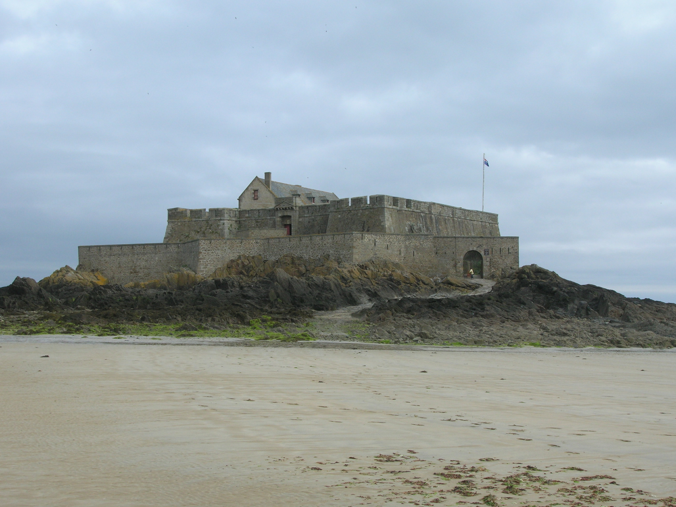 Fort National, Saint-Malo, at low tide